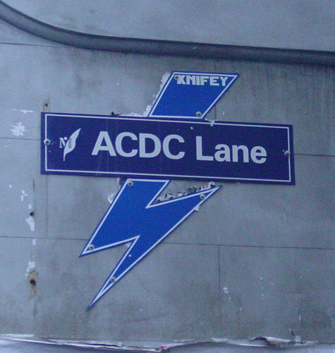 The street sign for ACDC Lane.